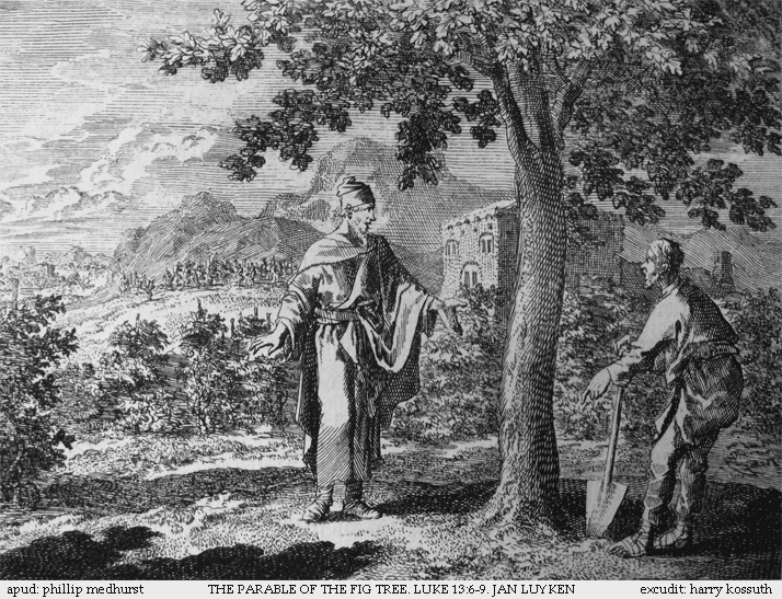 An etching by Jan Luyken illustrating Luke 13:6-9 in the Bowyer Bible, Bolton, England.